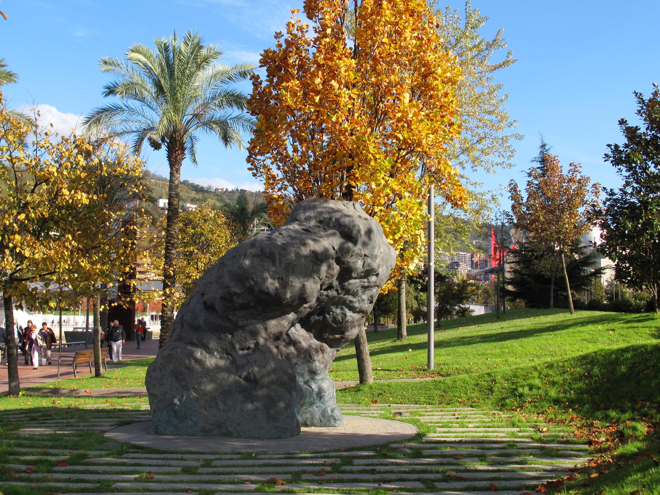 William Tucker, Maia, 2002, – Spain, Bilbao, Muelle de Evaristo Churruca